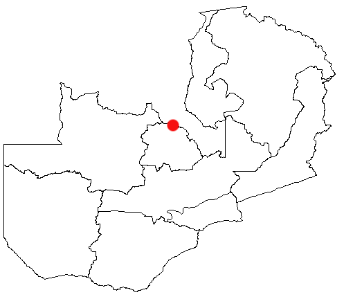 Chililabombwe, Zambia Location Map; created with the GIMP.